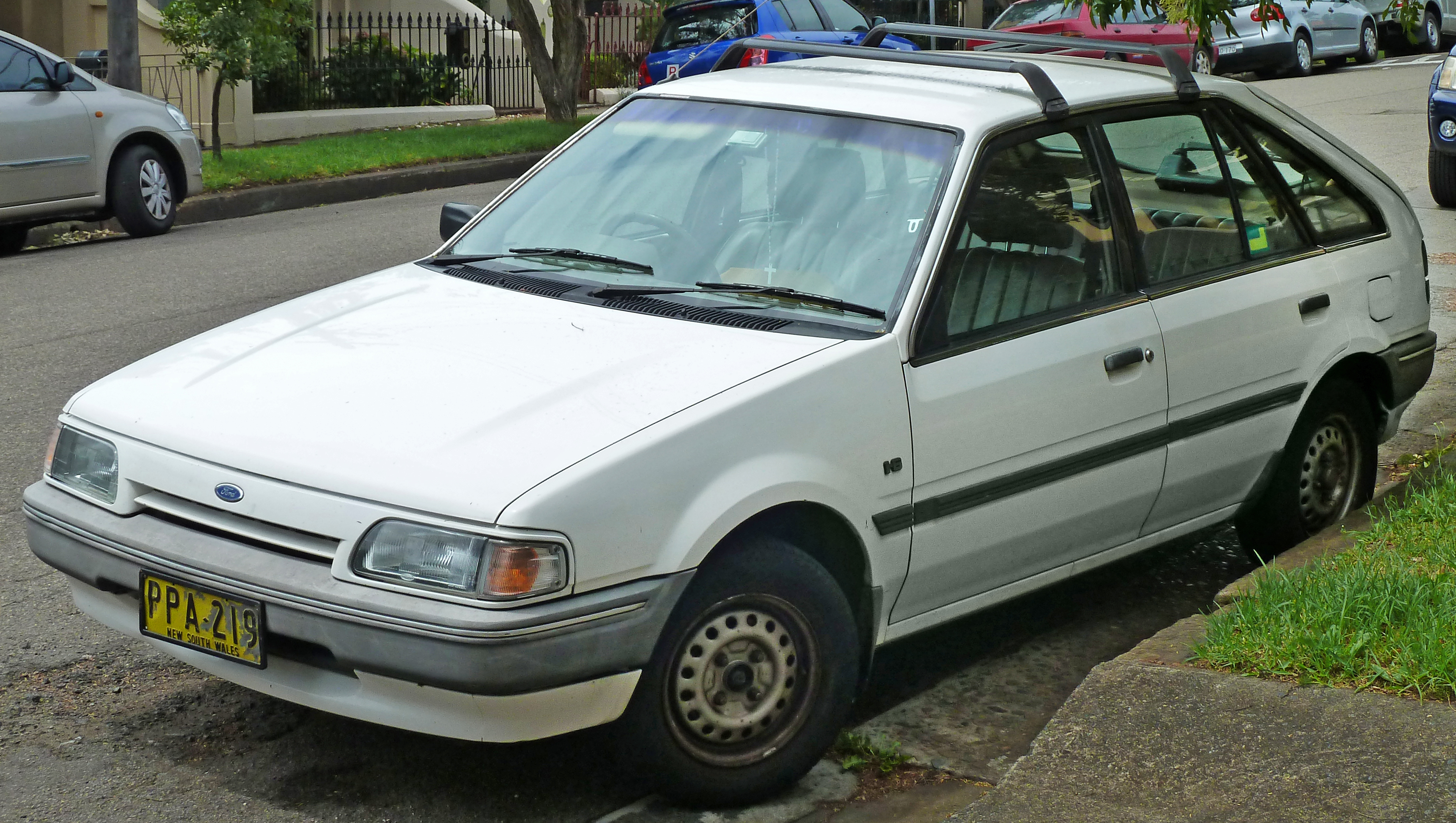 1987–1990 Ford Laser (KE) L 5-door hatchback. Photographed in Stanmore, New South Wales, Australia.